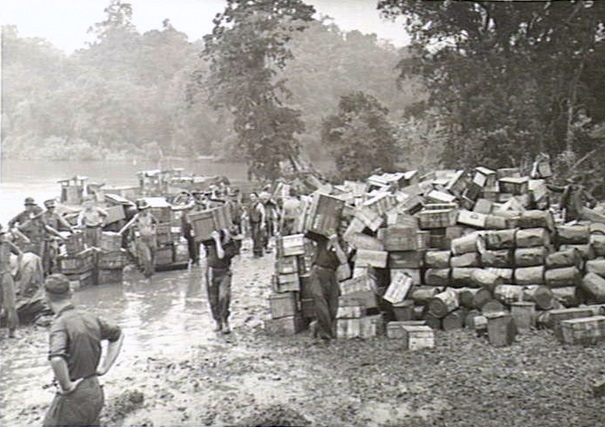 Australian 6th Infantry Brigade troops unloading stores after the landing at Jacquinot Bay, 4 November 1944